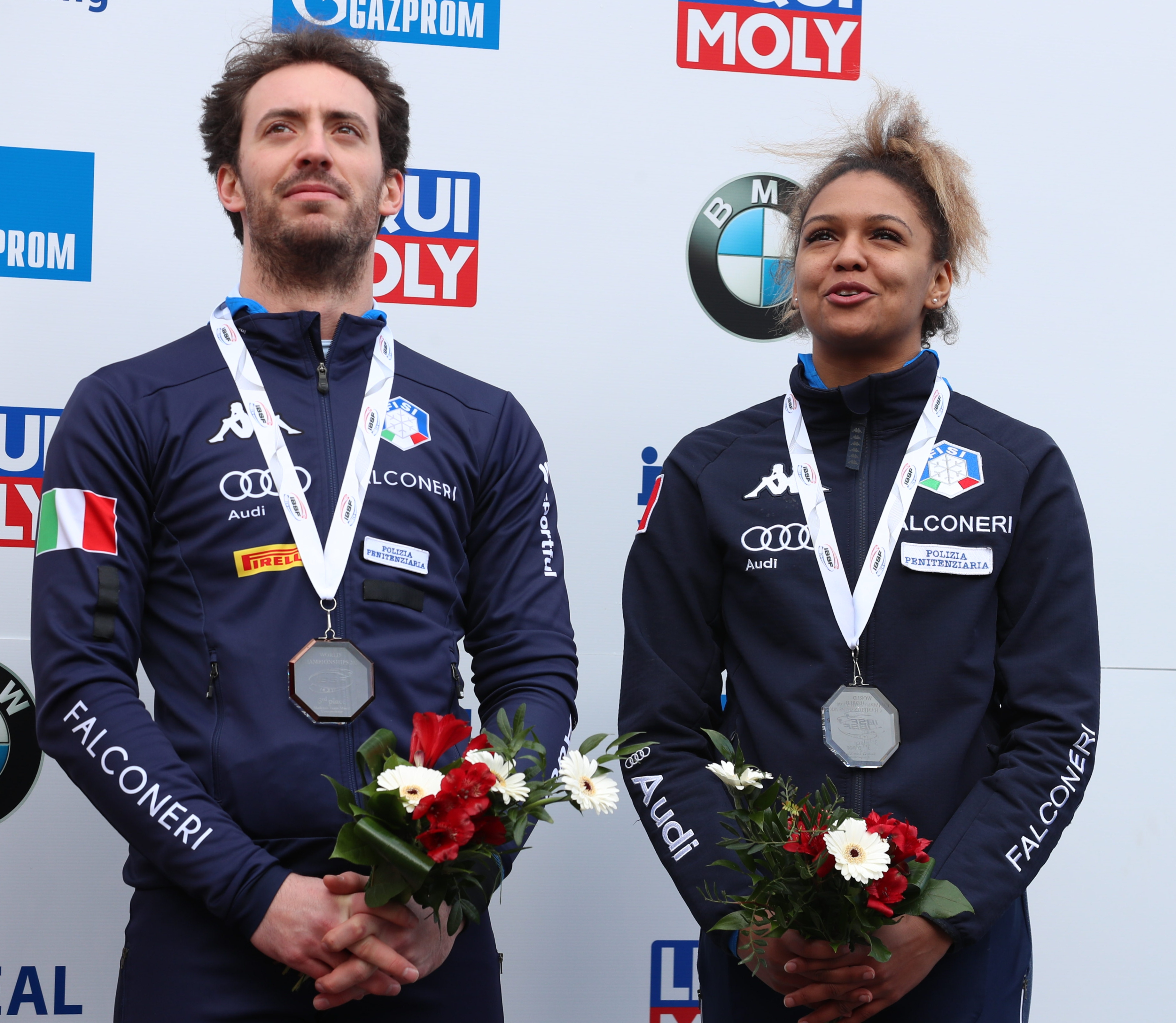 Medal Ceremony of the Skeleton Mixed Team competition at the Bobsleigh and Skeleton World Championships 2020 in Altenberg